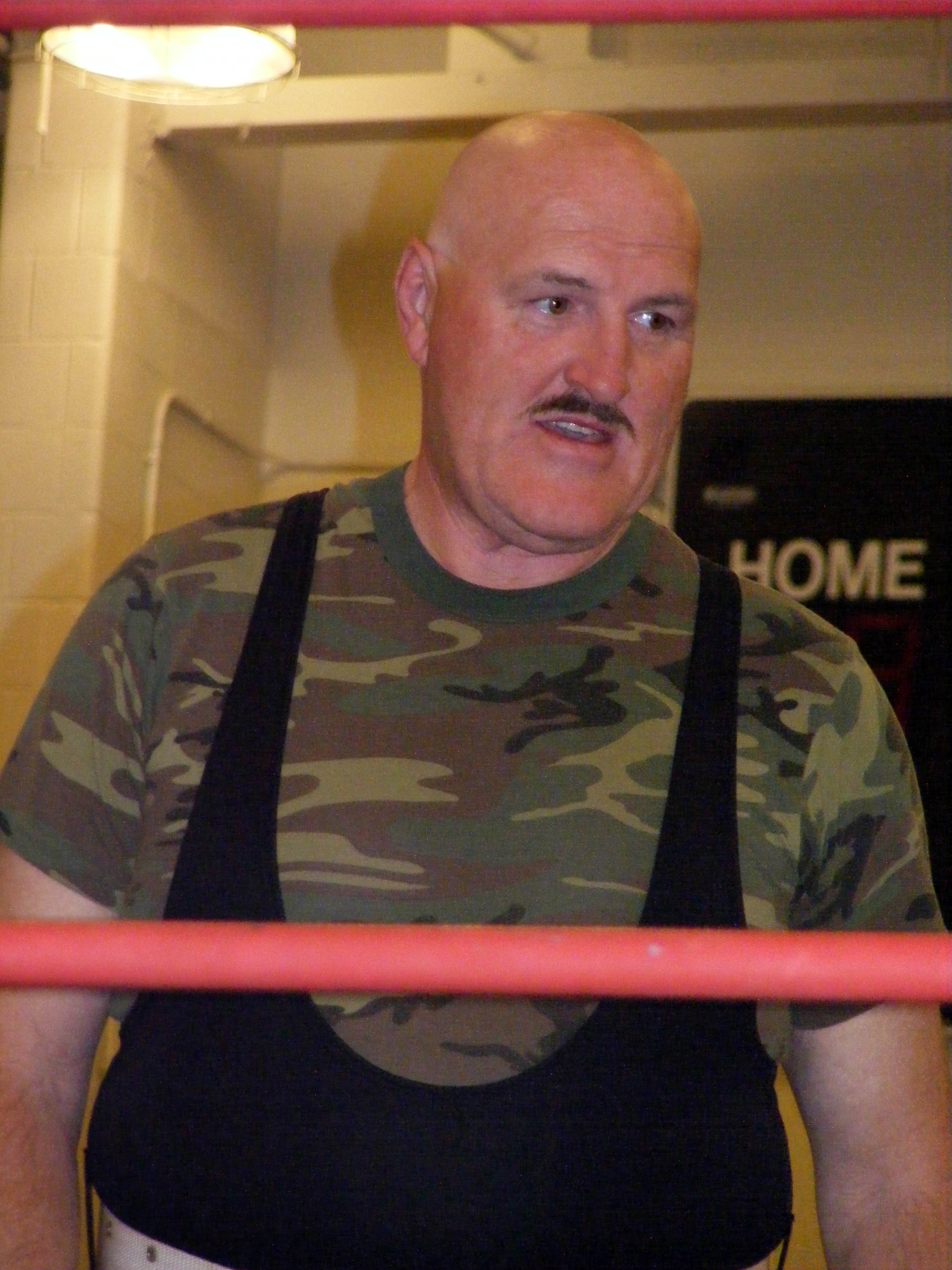 Professional wrestler Sgt. Slaughter at an NCW show in April 2009